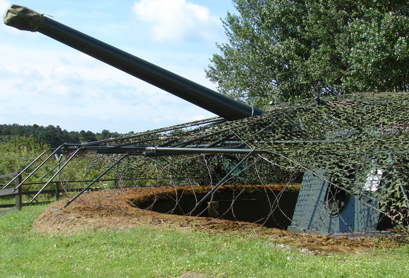 150 mm gun - Langelandsfortet, Denmark